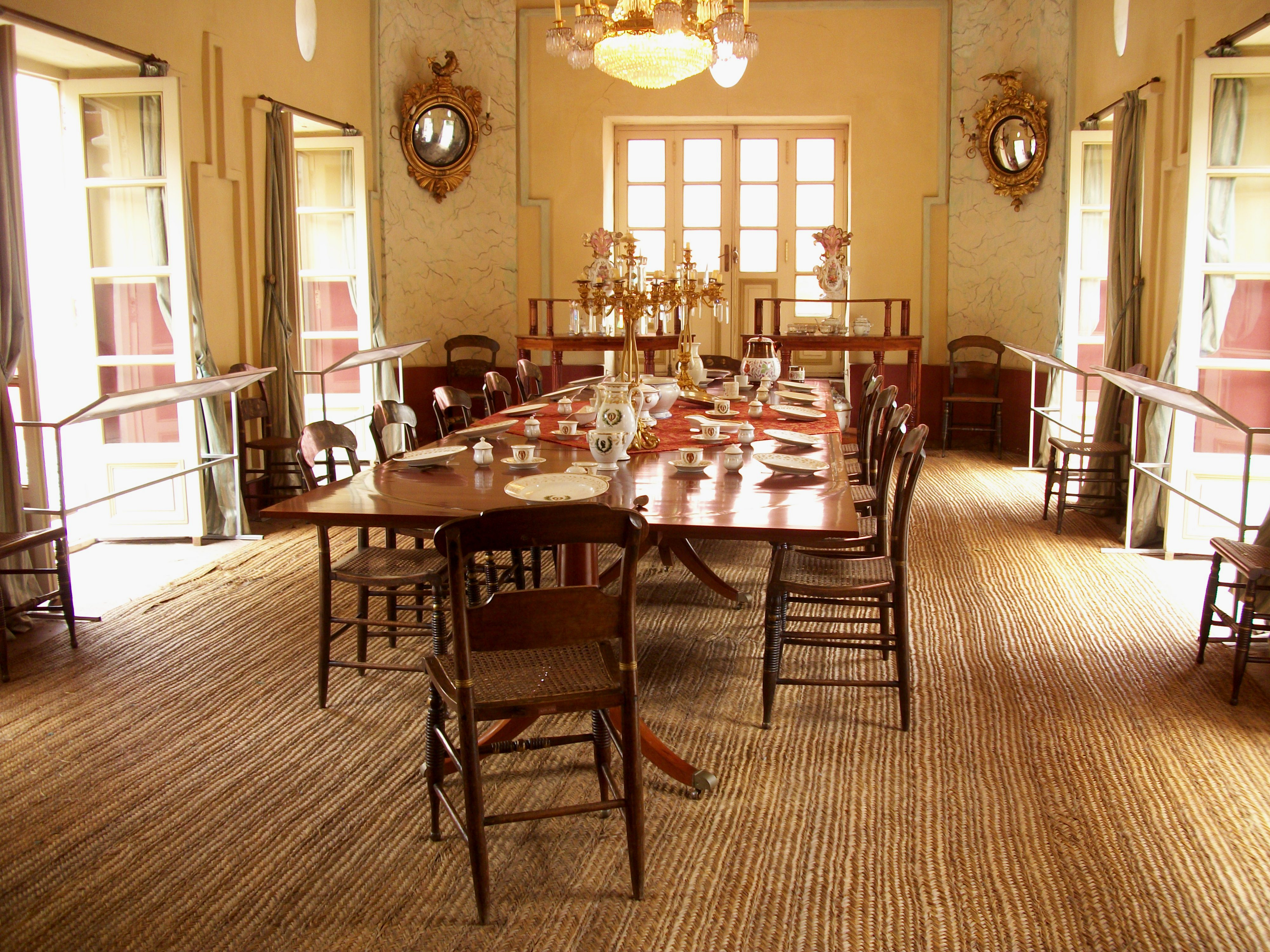 Dining room. Quinta de Bolívar. Bogotá, Colombia.